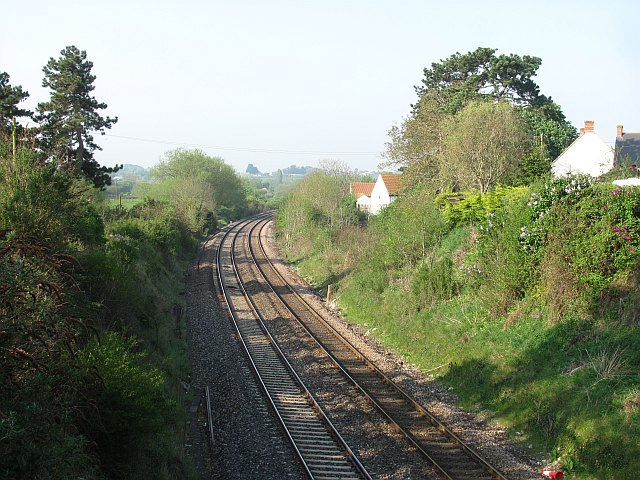 The site of which Somerton Railway Station stood before it closed in the 1960's. This is in Somerton, Somerset, England.